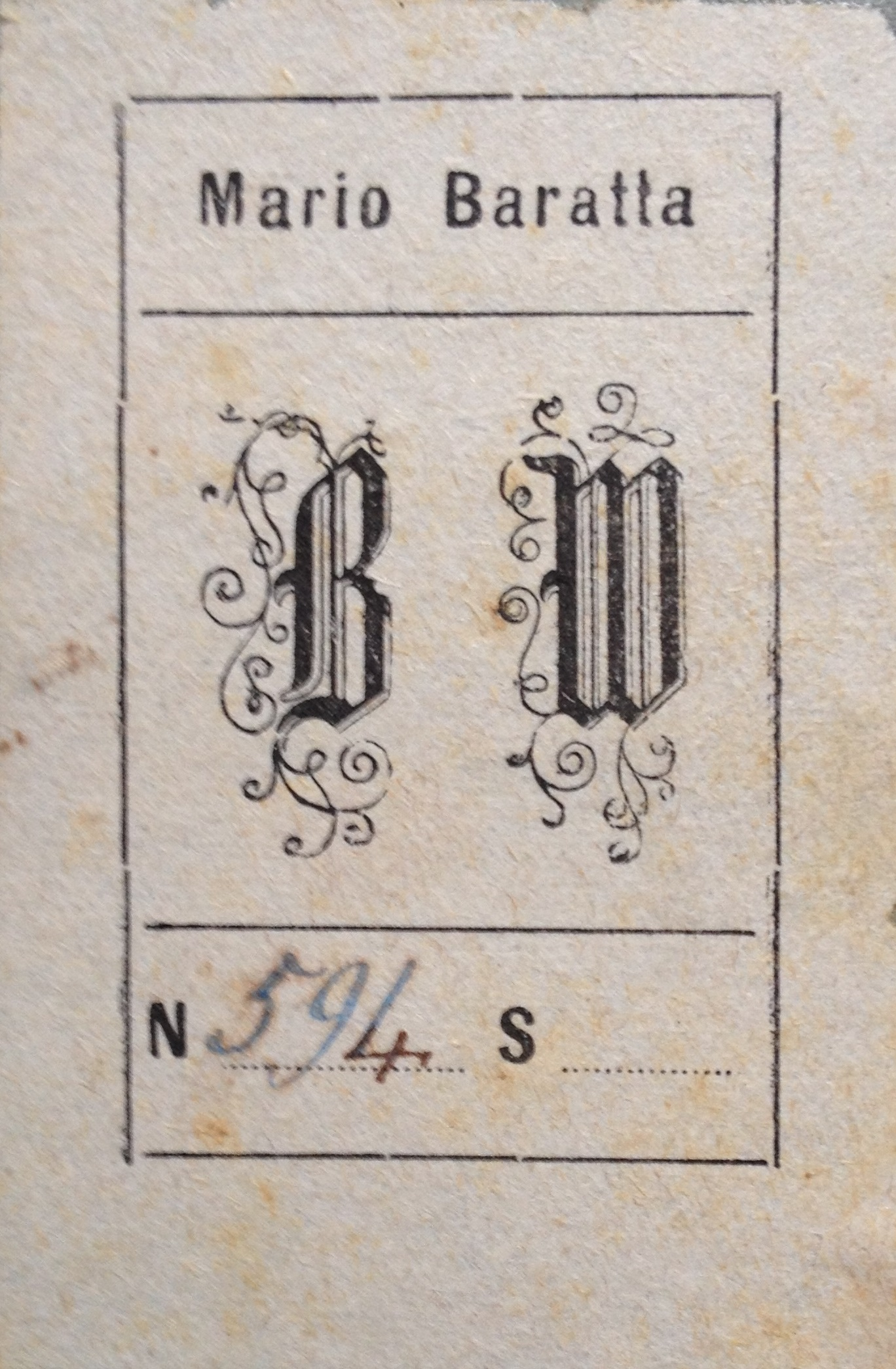 Mario Baratta bookplate type 1